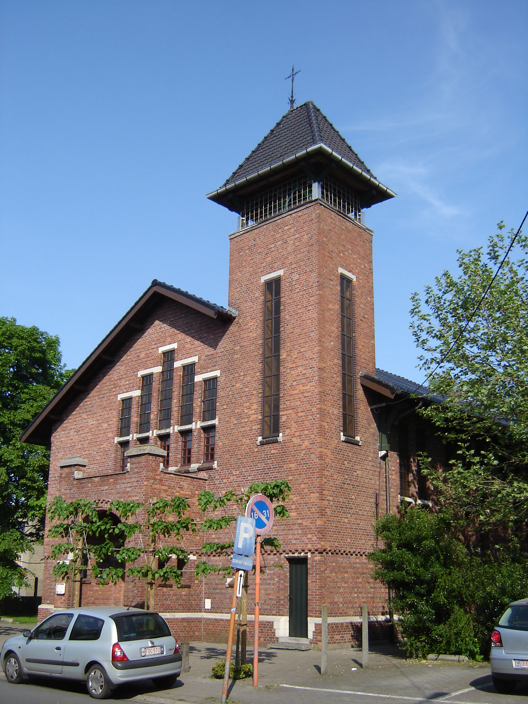 Church of Saint Anthony of Padua in Zelzate-West. Zelzate, East Flanders, Belgium